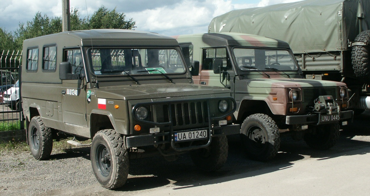 Polish Army Honker vehicles. On the left, late version Honker 2000, on the right, early version Honker 2324 (or 4011) (note pre-2000 registration plate).